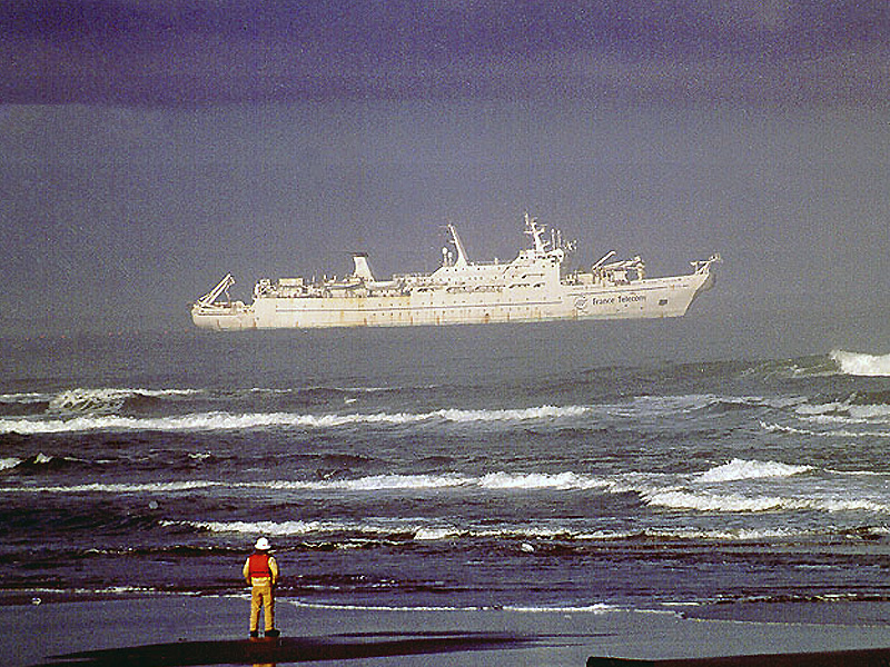 The french cableship "Vercors" in 1995.